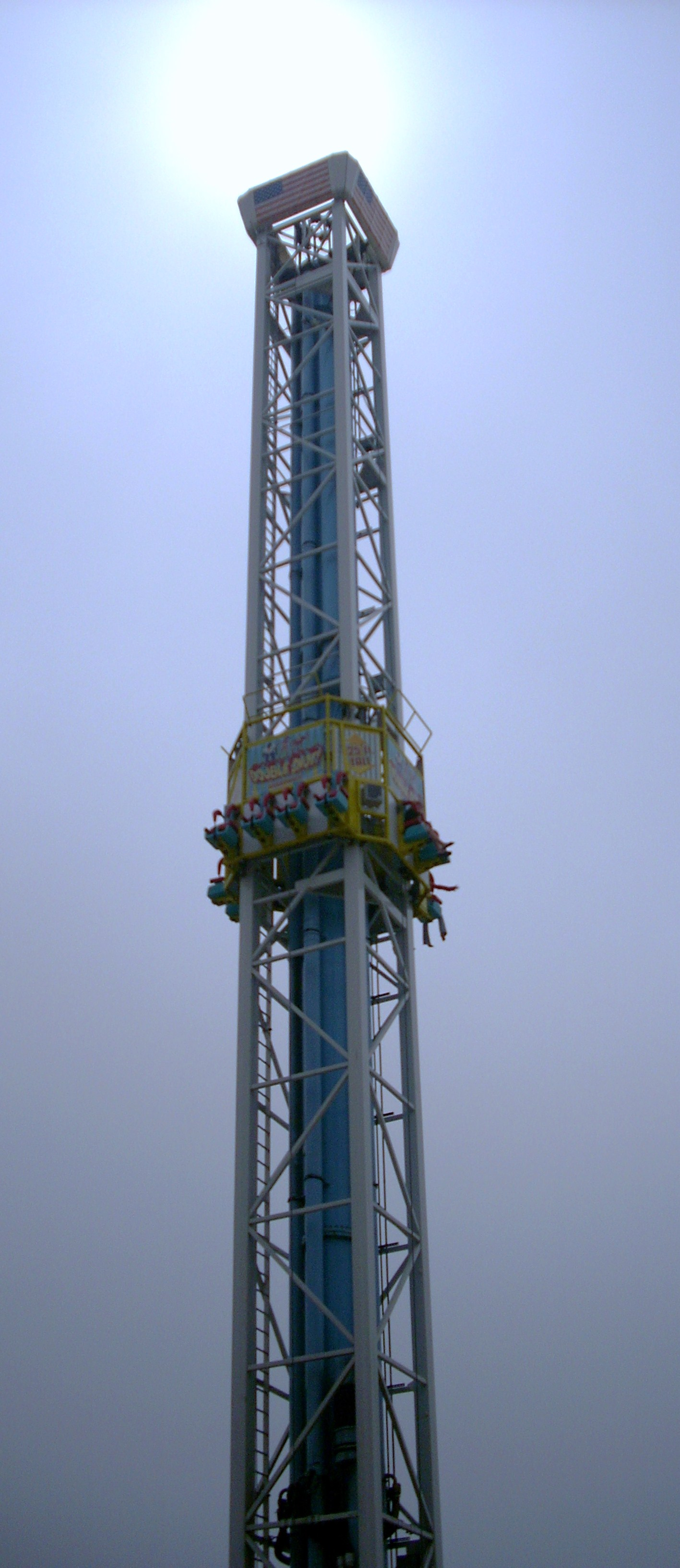 Drop tower on the Santa Cruz Beach Boardwalk, with the sun in the background